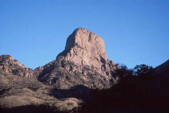 Boboquivari Peak in the Boboquivari Peak Wilderness, Arizona.